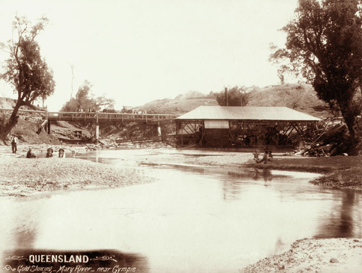 Gold Sluicing, Mary River, near Gympie.